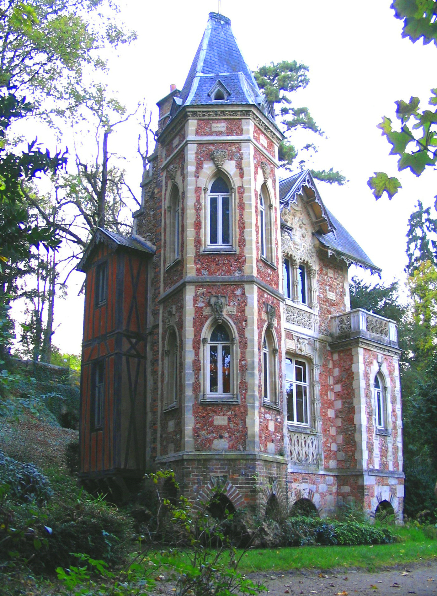 Château d'If: View of the castel of the French novelist Alexandre Dumas at Port-Marly, near Paris, France